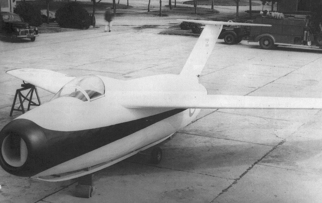 Glider testbed for Pulqui II fighter.